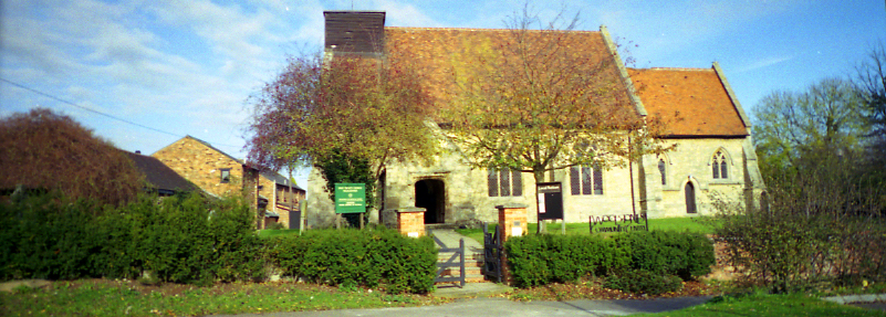 The 13th century church in Little Woolstone. Summer 1999.